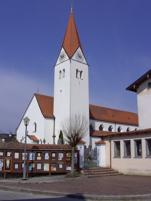 St. Zeno Church in Isen